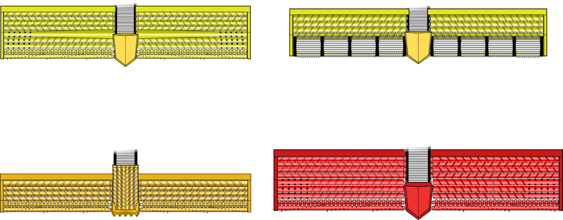 overview Pick-up Beet Cleaner